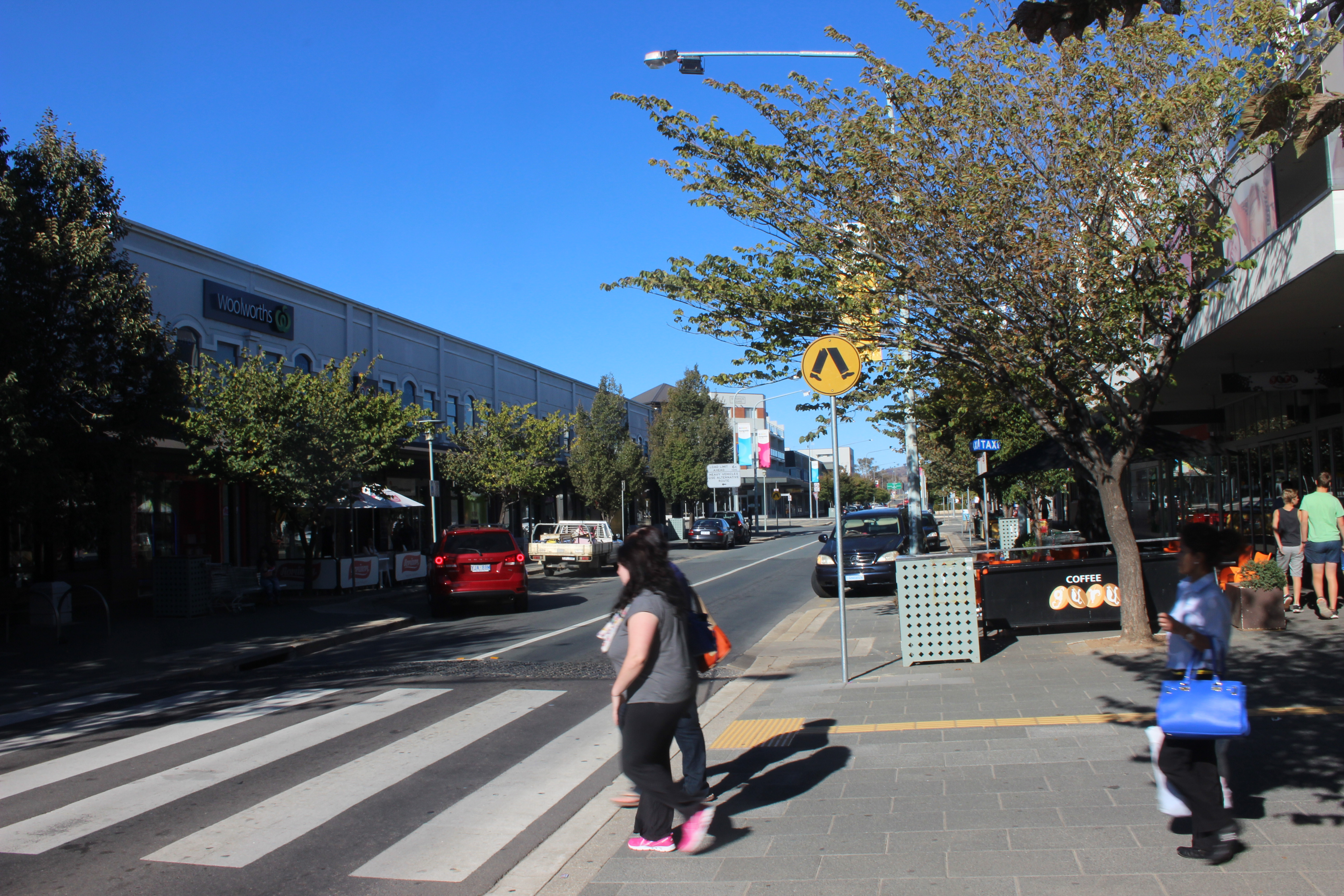 Hibberson St, Gungahlin centre, March 2015